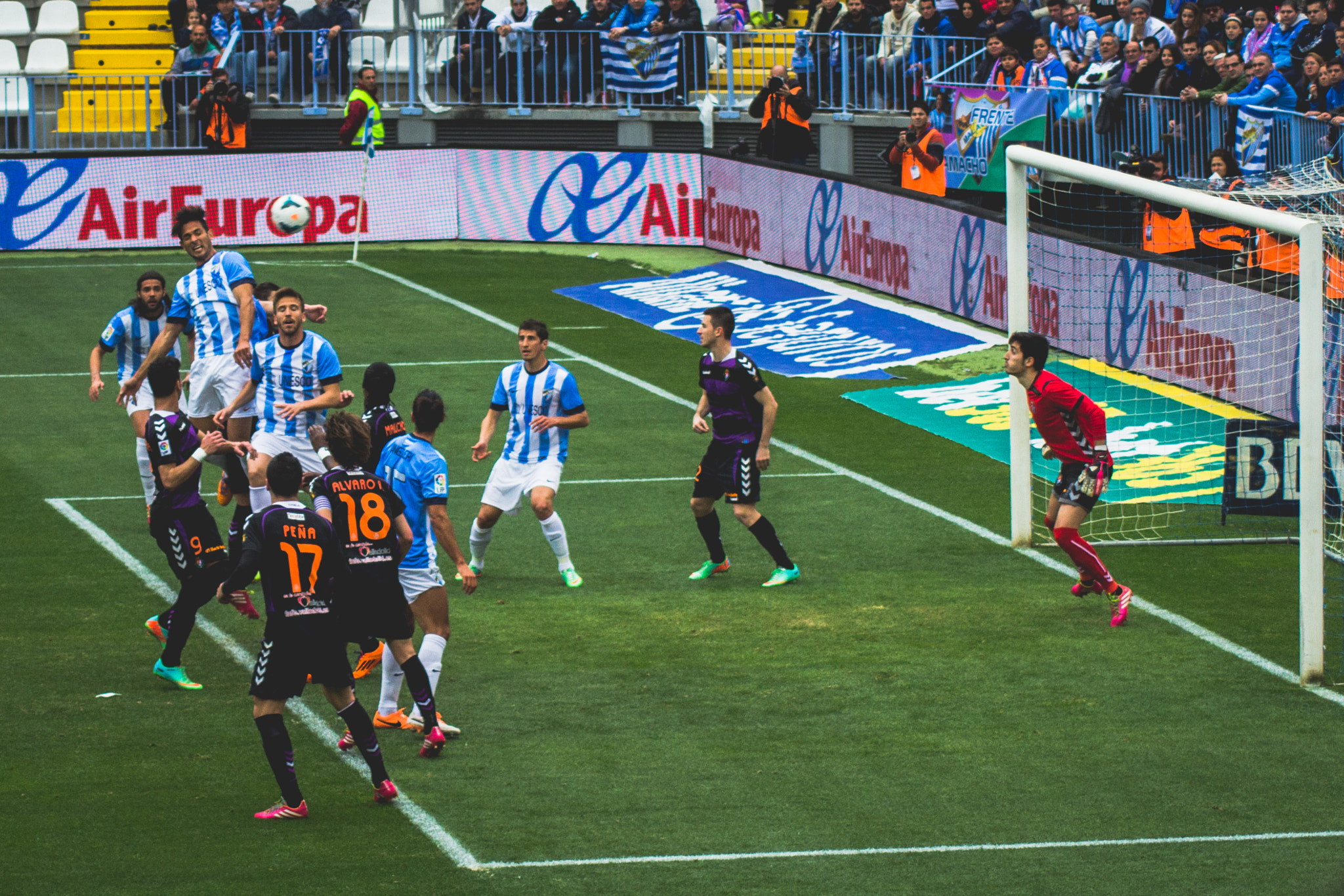 500px provided description: Roque Santa Cruz with the header to lead M?laga 1-0. Day in "La Rosaleda Stadium" watching M?laga FC vs Valladolid: Ended 1-1. [#football ,#futbol ,#liga bbva ,#M?laga ,#Valladolid ,#M?laga FC]